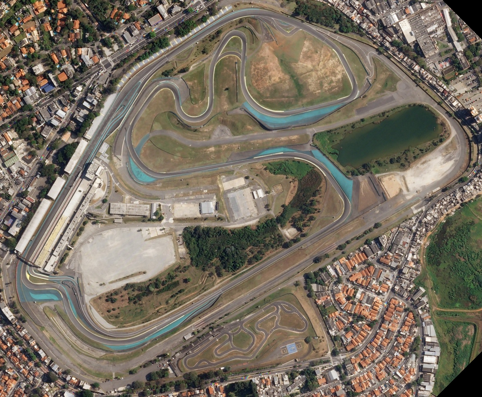 Autódromo José Carlos Pace, a motorsport race track located in the Interlagos neighborhood of São Paulo, Brazil, and home of the Formula One Brazilian Grand Prix since 1973. Image taken on July 3, 2018, by a Planet Labs SkySat satellite.